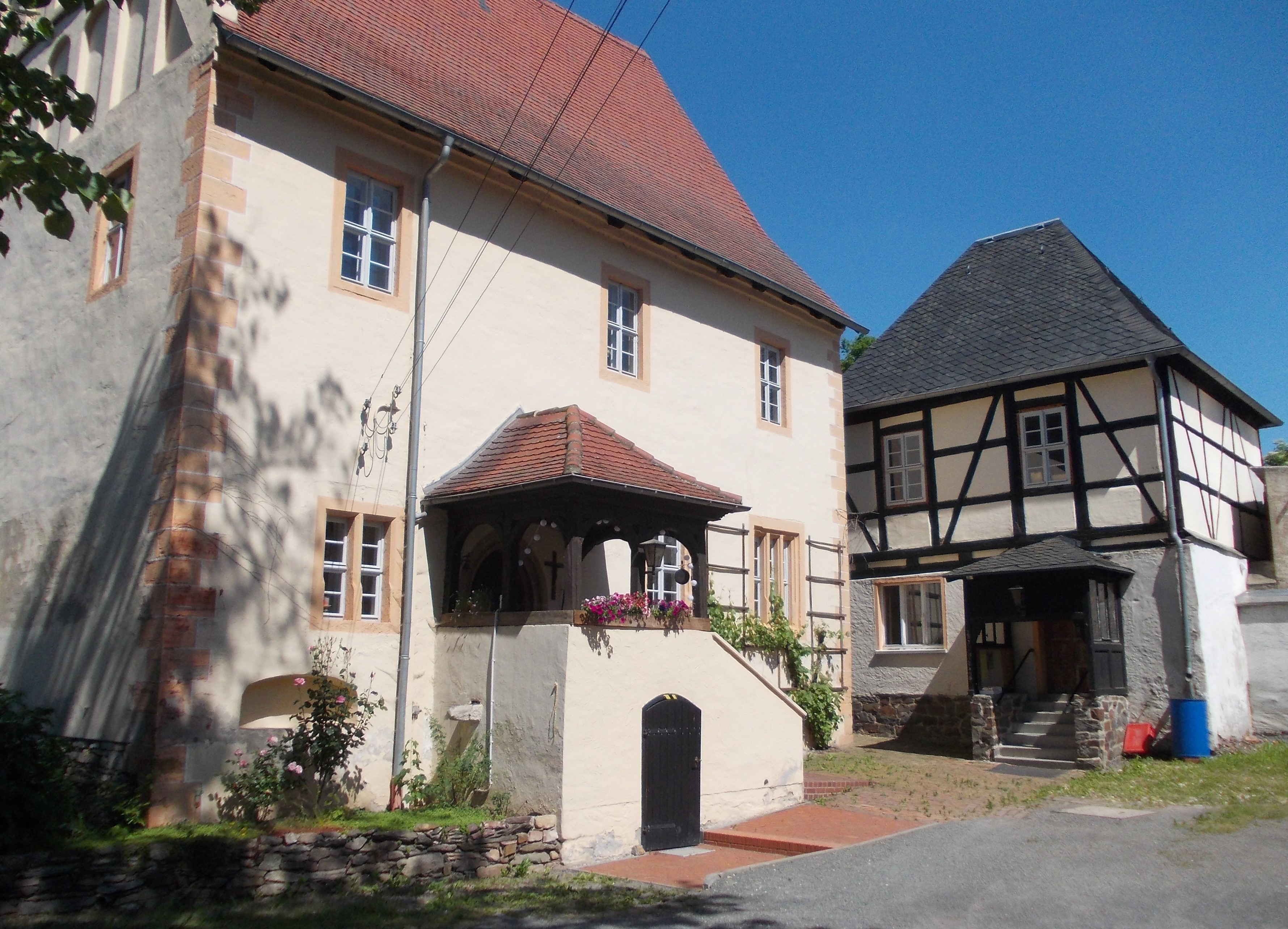 The rectory in Cronschwitz (Wünschendorf, Greiz district, Thuringia), originally the guest house of the Dominican nunnery